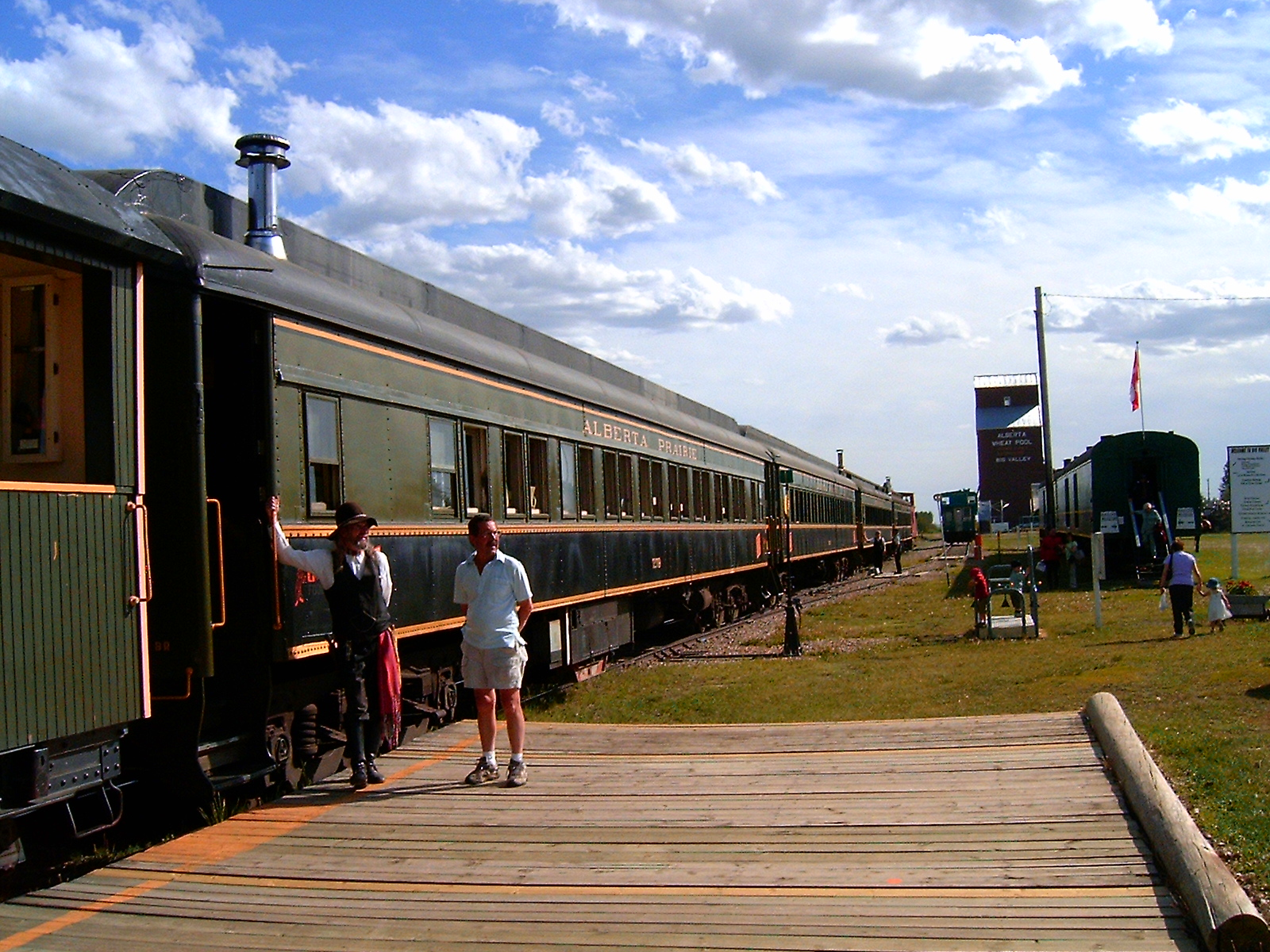 Alberta Prairie Railway Excursions cars